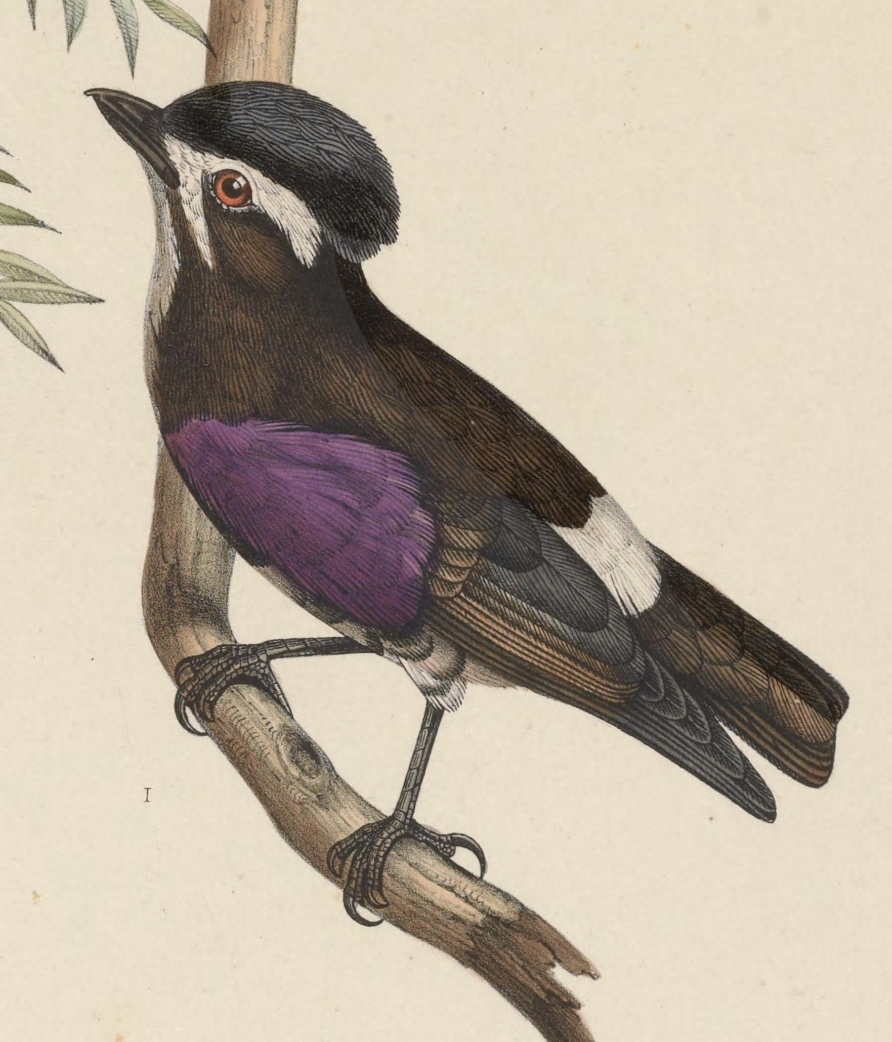 Iodopleura emiliae = Iodopleura isabellae (White-browed Purpletuft)